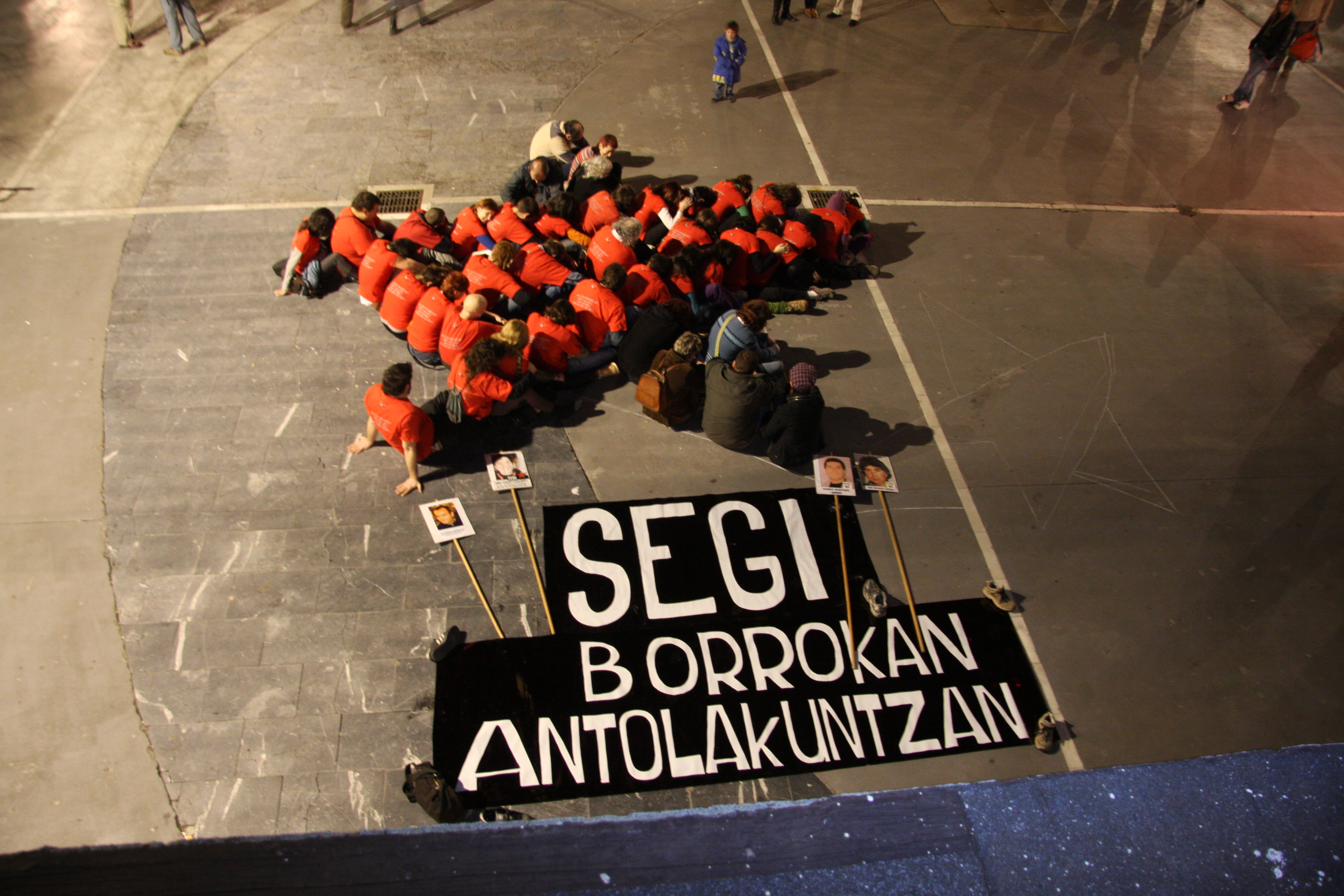 Segi youth organization